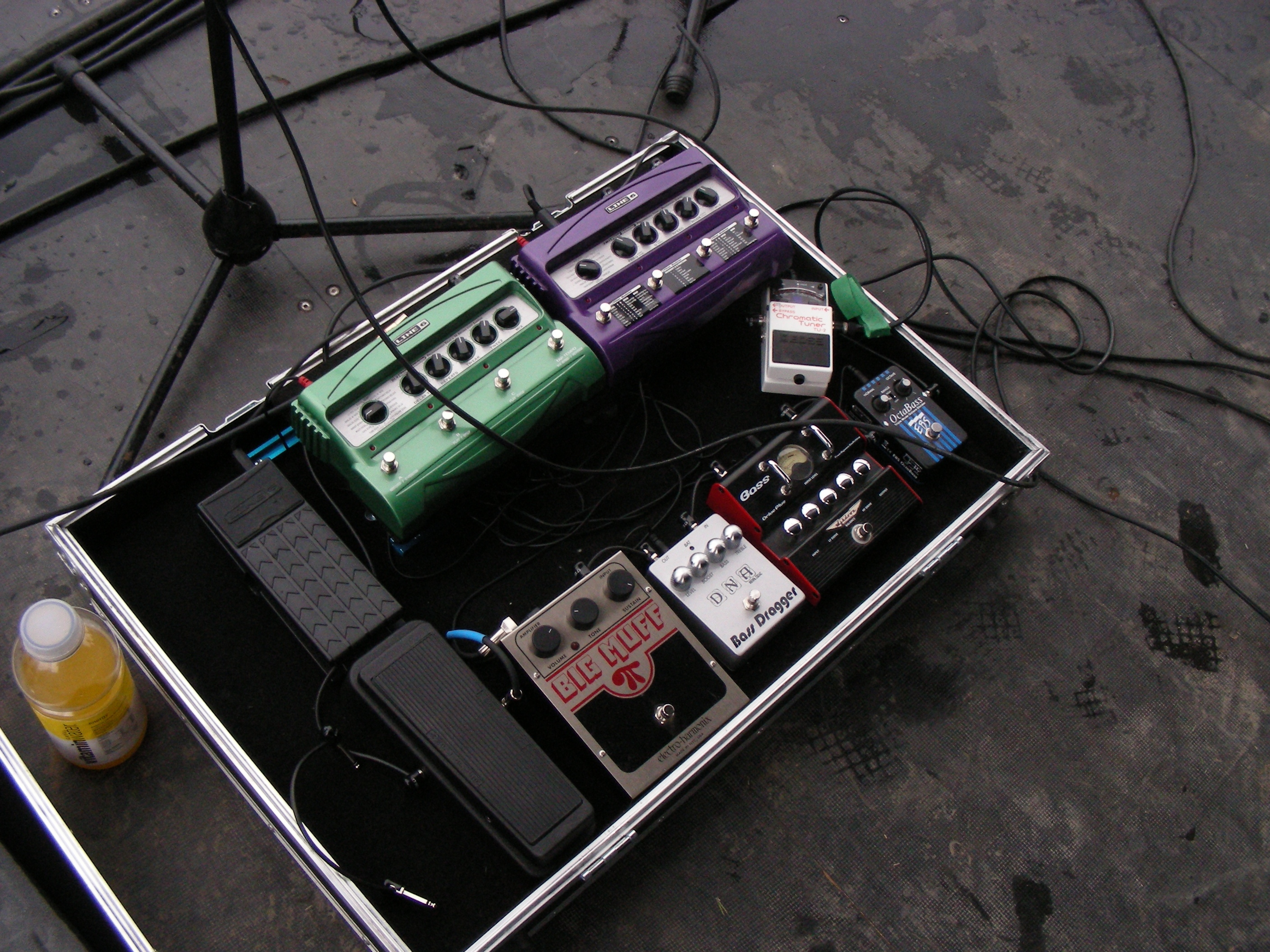 “Pedals are awesome. You really can't have too many pedals. Especially as a bass player.”